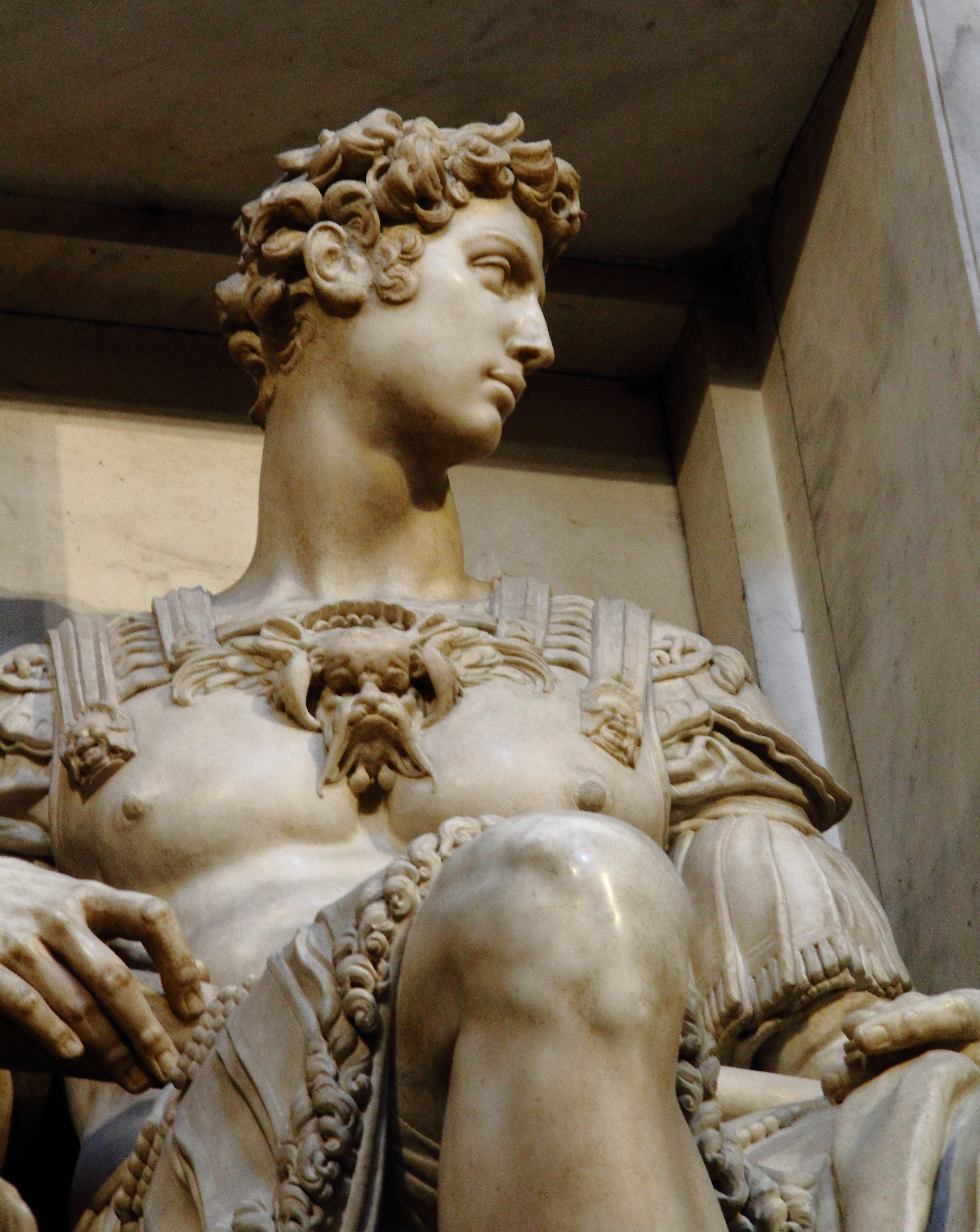 Florence, Italy: San Lorenzo, New Sacristy, statue of Giuliano by Michelangelo in the tomb monument of Giuliano di Lorenzo de' Medici